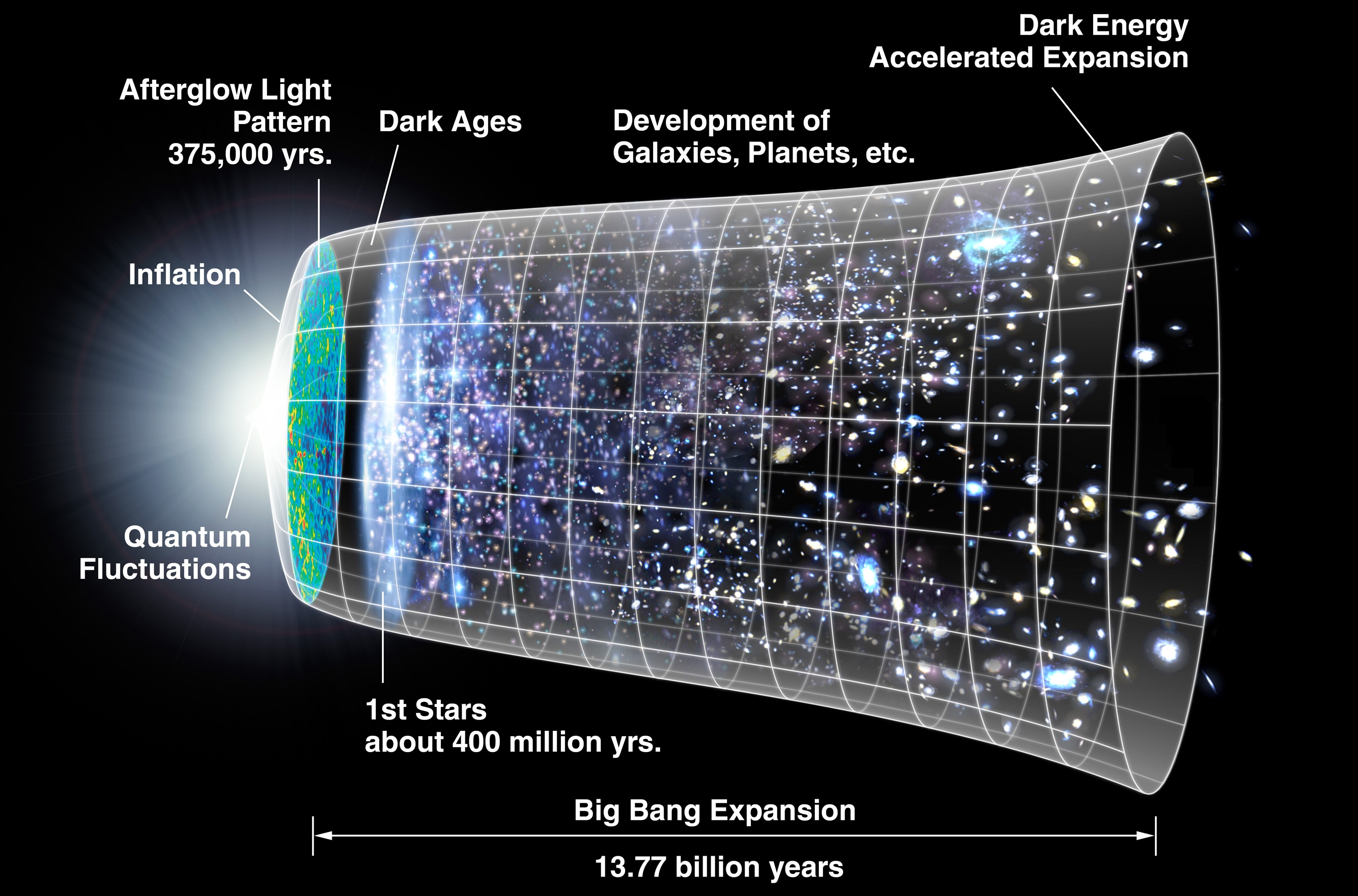 Timeline of the universe. A representation of the evolution of the universe over 13.77 billion years. The far left depicts the earliest moment we can now probe, when a period of "inflation" produced a burst of exponential growth in the universe. (Size is depicted by the vertical extent of the grid in this graphic.) For the next several billion years, the expansion of the universe gradually slowed down as the matter in the universe pulled on itself via gravity. More recently, the expansion has begun to speed up again as the repulsive effects of dark energy have come to dominate the expansion of the universe. The afterglow light seen by WMAP was emitted about 375,000 years after inflation and has traversed the universe largely unimpeded since then. The conditions of earlier times are imprinted on this light; it also forms a backlight for later developments of the universe.